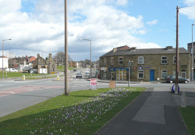 Bradford Road, Littletown, Liversedge Littletown was the town centre of Liversedge, but a great swathe was demolished to drive a dual carriageway through from Mill Bridge to Cleckheaton. It was largely a waste of money, as nothing was done about the bottlenecks at each end, and a 30mph speed limit meant that there was no saving in journey time. The curved row of shops survived.